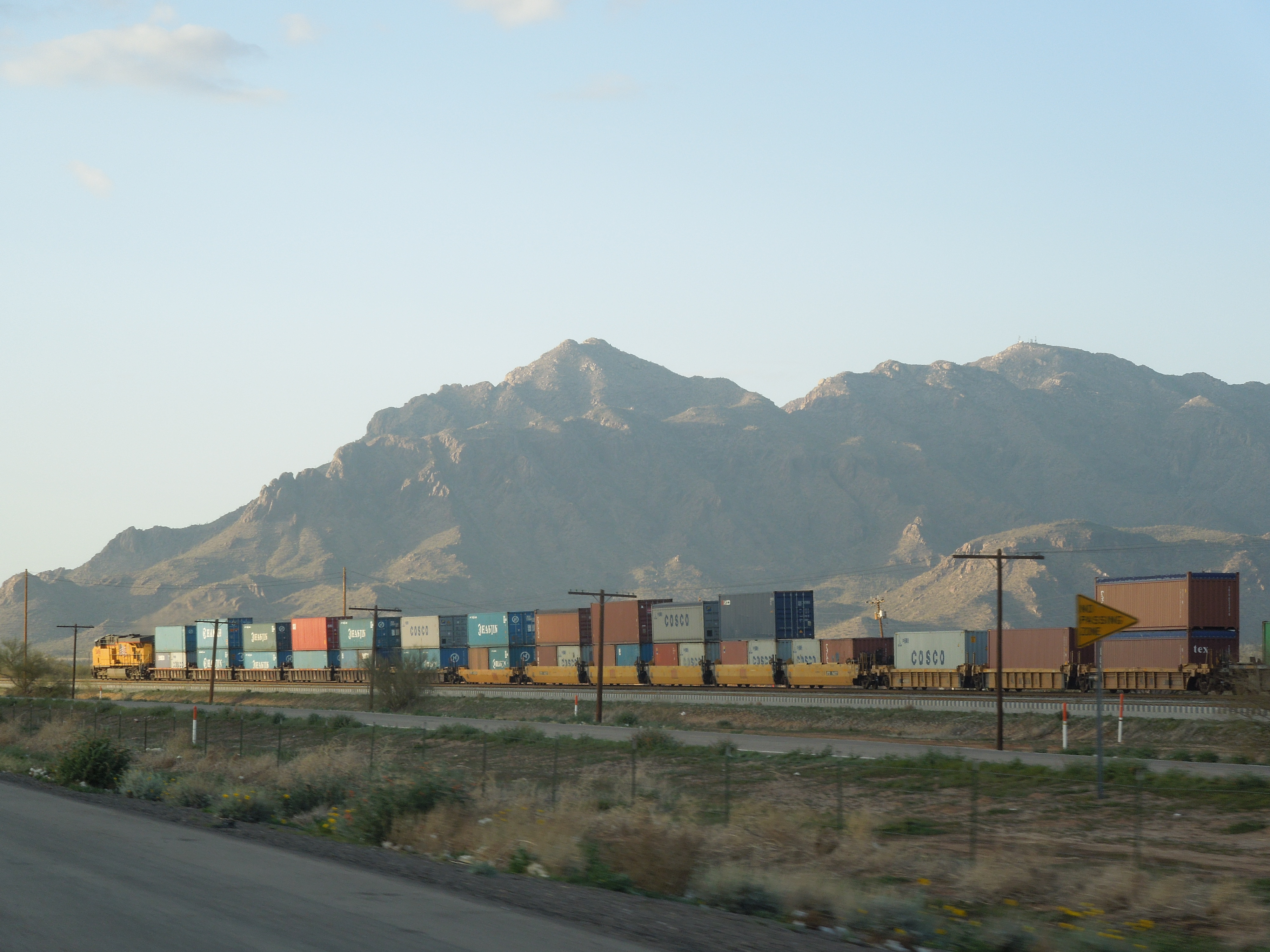 Freight train in Tucson, Arizona